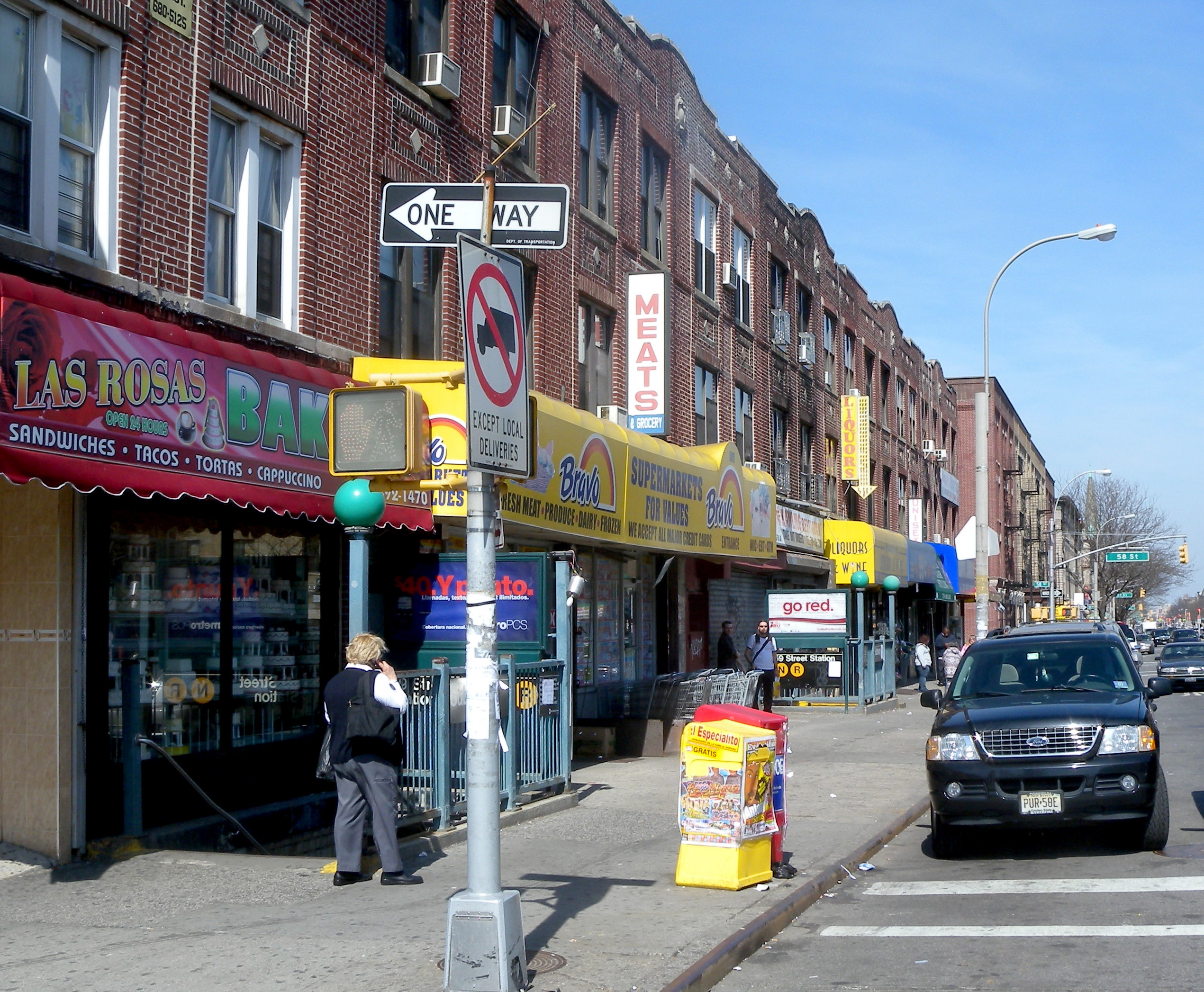 Looking north at en:59th Street (BMT Fourth Avenue Line) on a sunny afternoon.